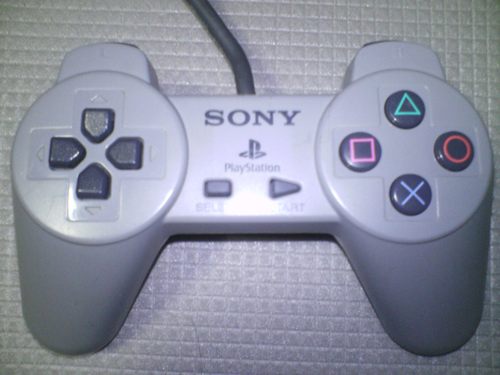 Controller for PlayStation, bundled with early version of it.